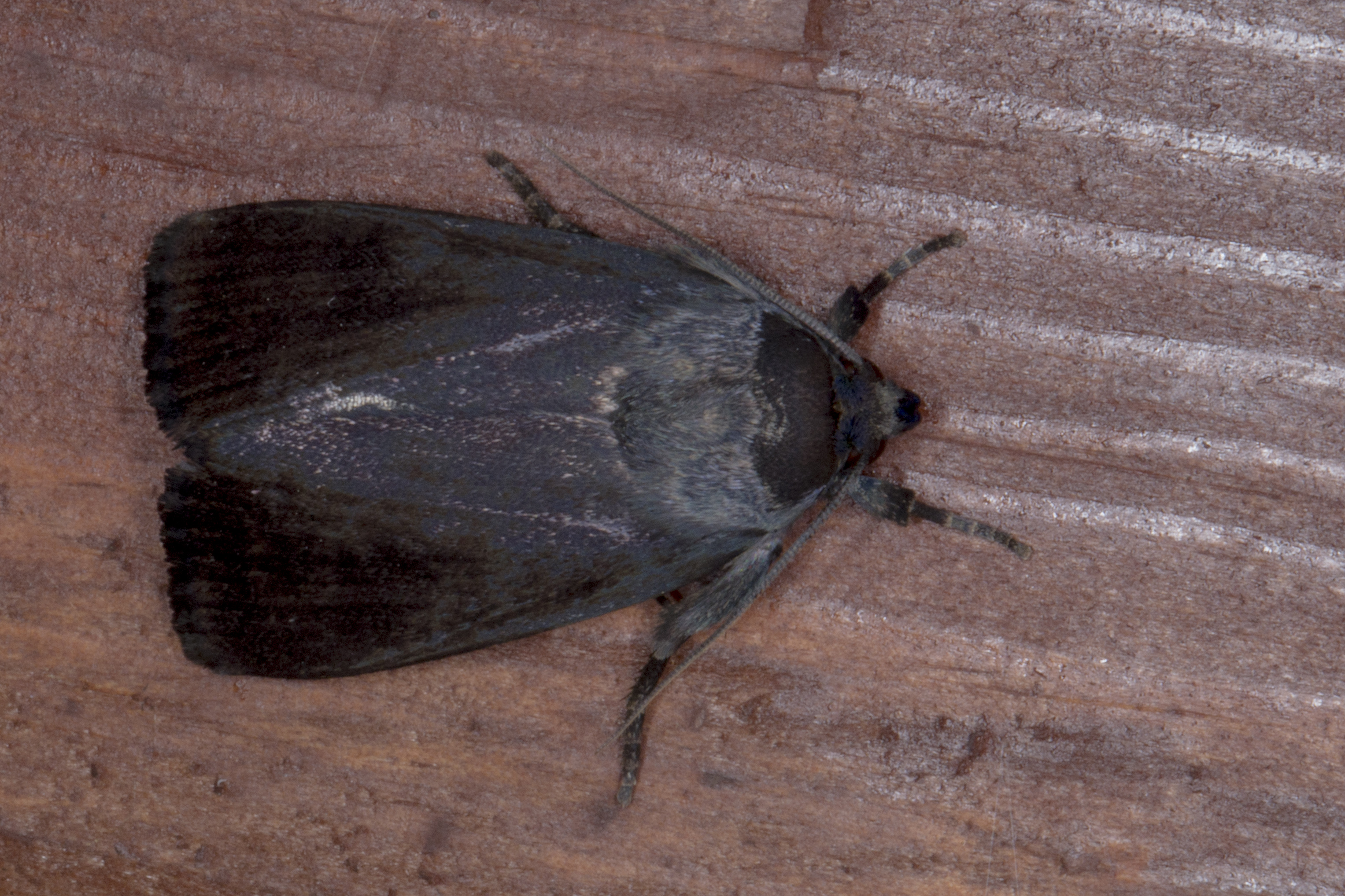 The Black moth, Lodz, Poland